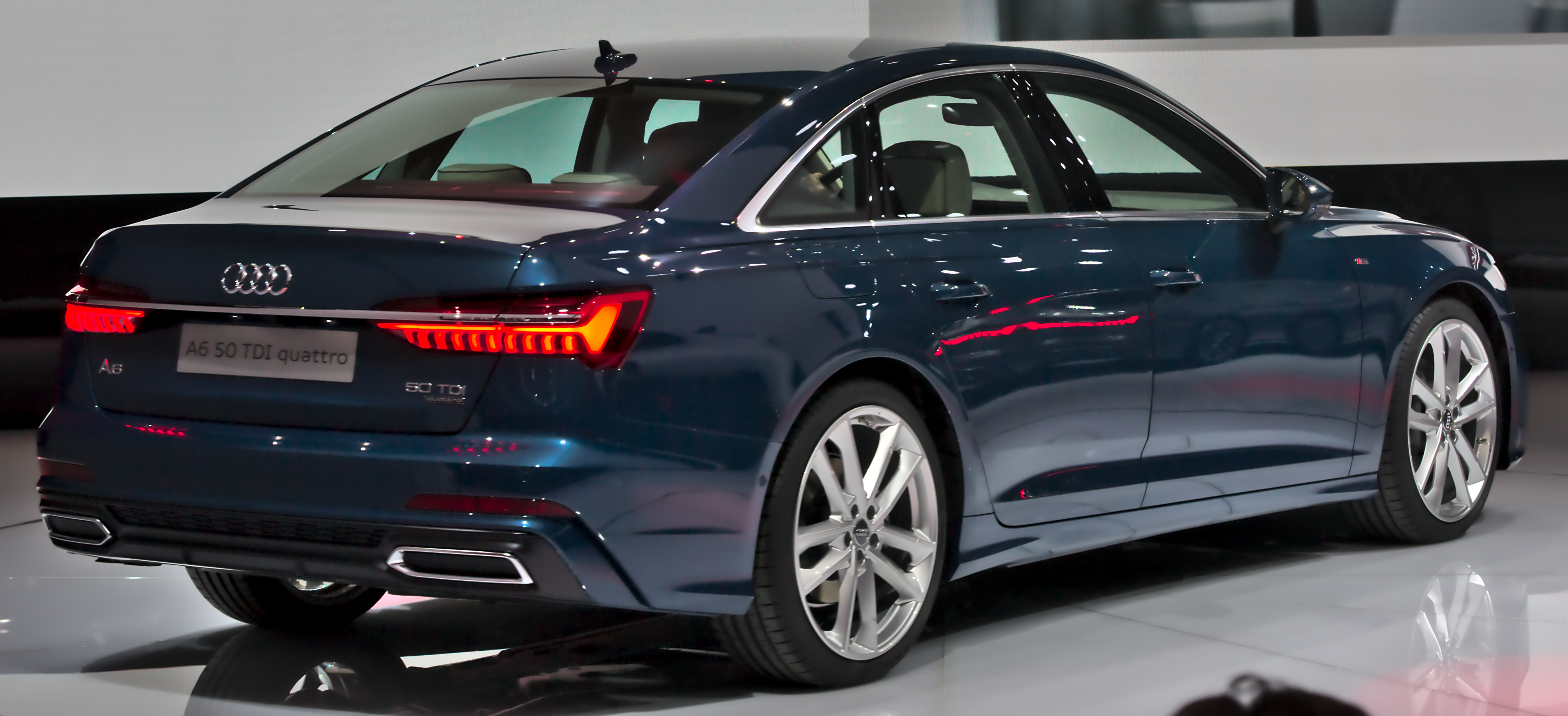 Audi A6 C8 at Geneva Motorshow 2018